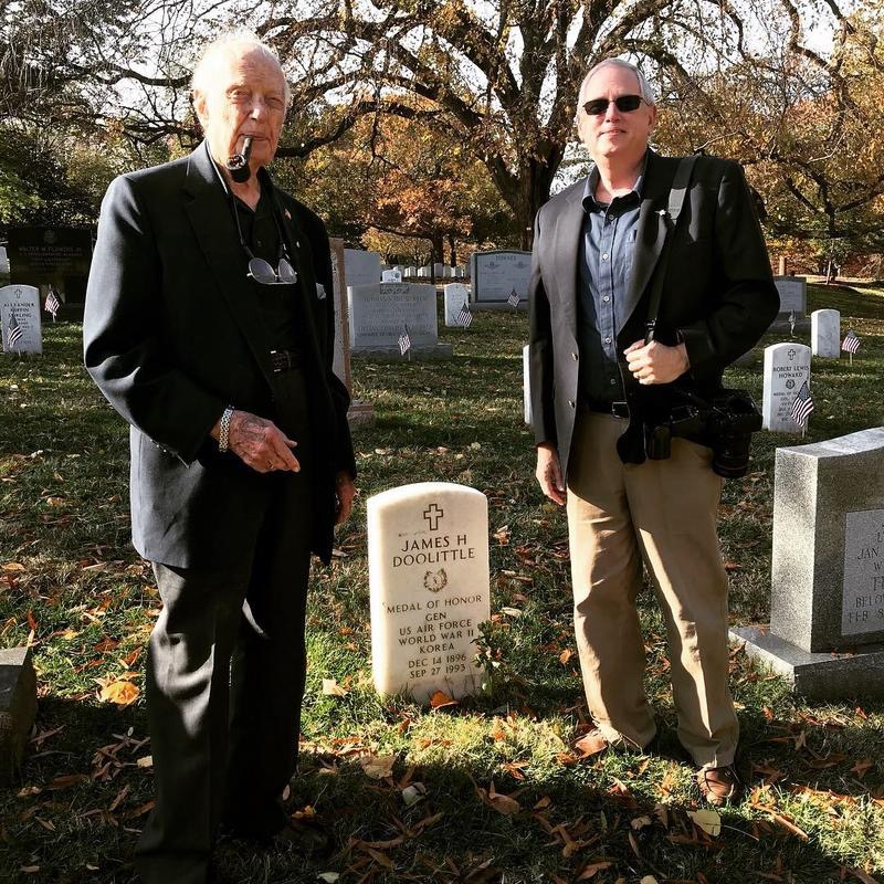 Deatrick and son, Will, visiting Doolittle’s marker